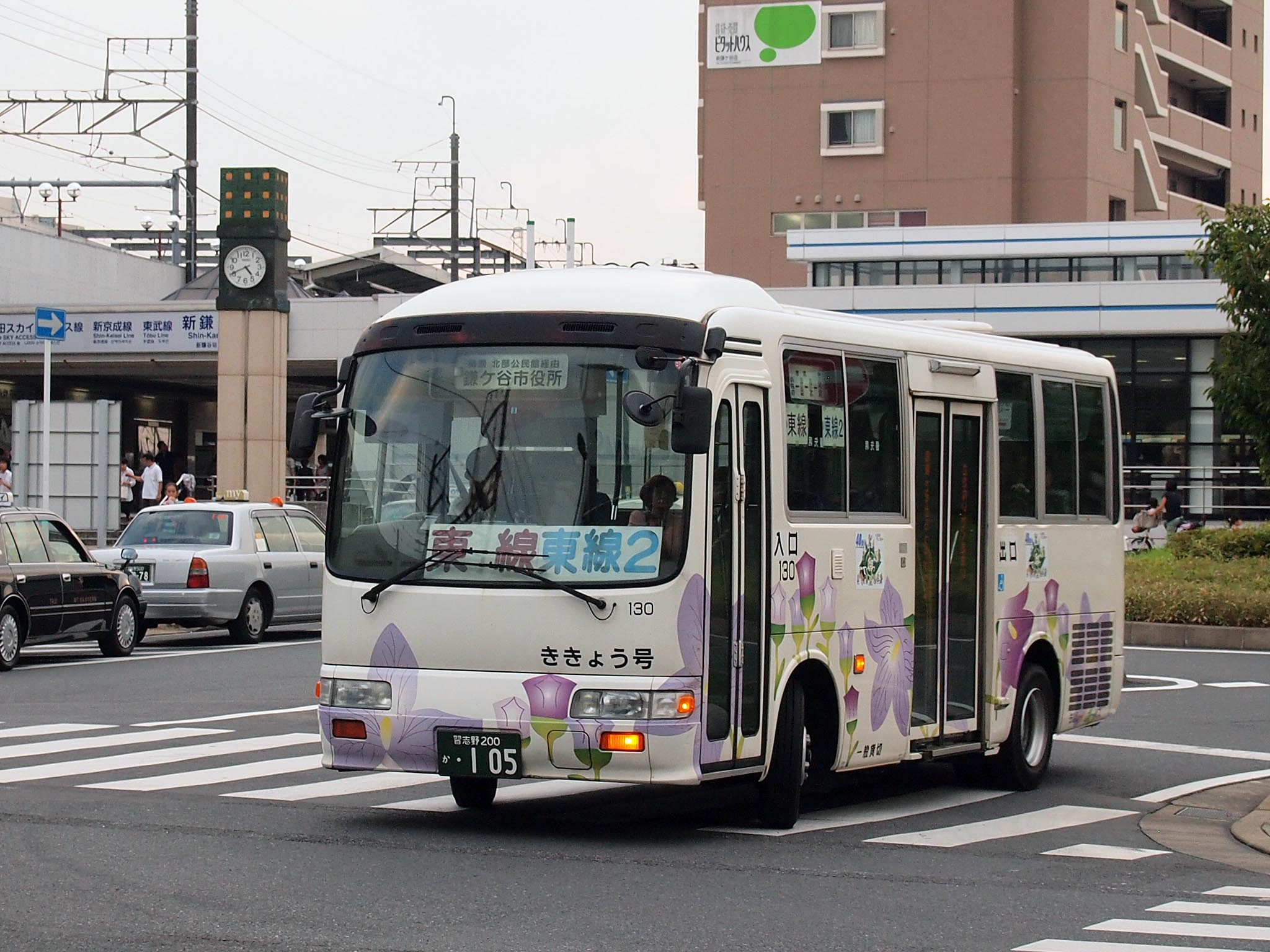 Fleet of Chiba Rainbow Bus, for Kamagaya City Community Bus "Kikyou"(Platycodon grandiflorus). Model: Hino Liesse KK-RX4JFEA License plate: CBN200KA-105 Place: Shin-Kamagaya Station, Kamagaya City, Chiba Japan